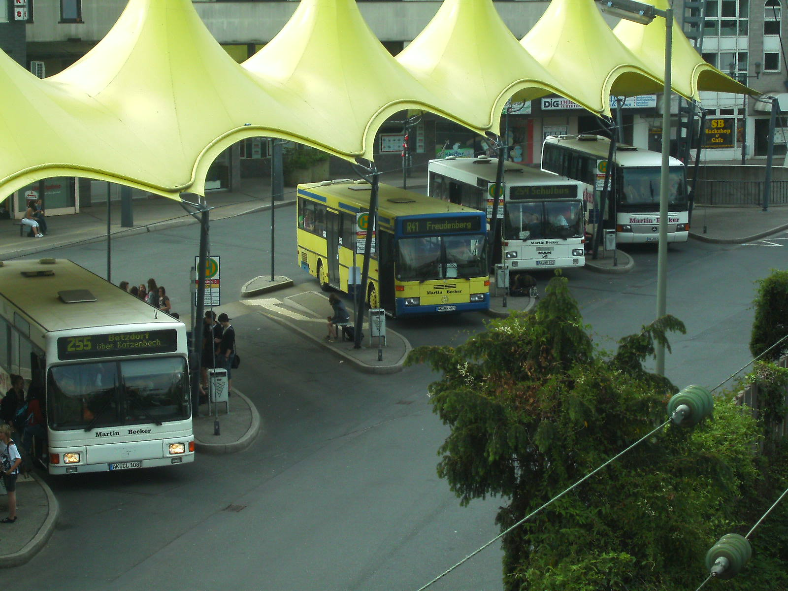 Buses of Martin becker at the bus station Betzdorf